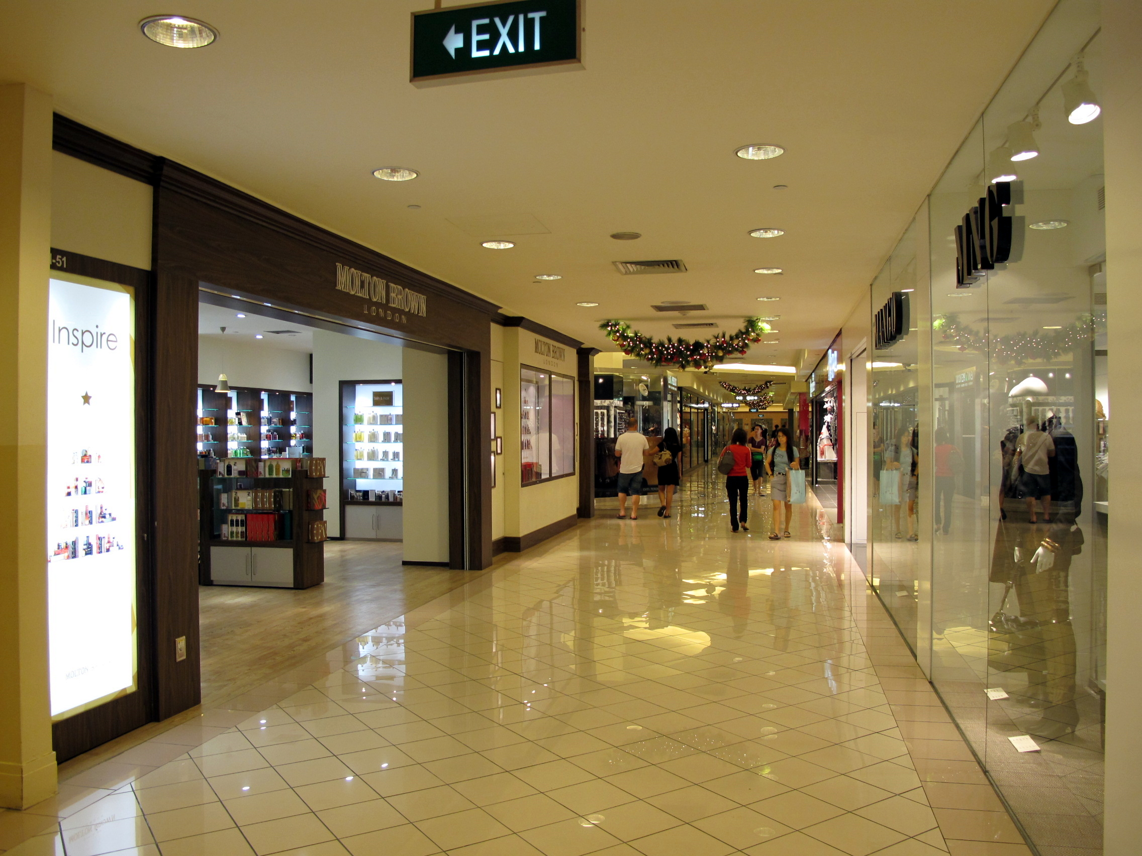 Ngee Ann City Access